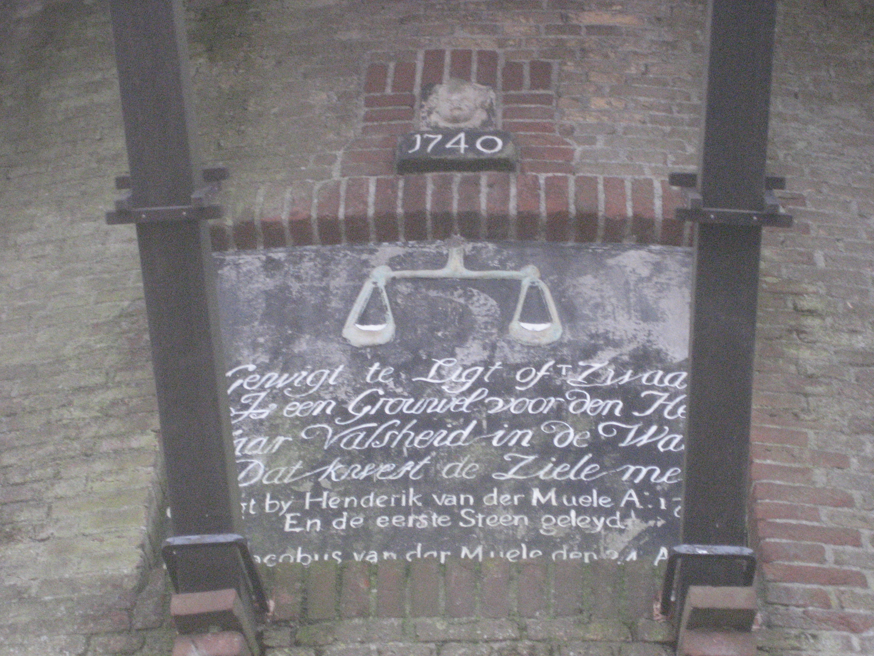 Plaque at the windmill "De Geregtigheid" ("Justice") in Katwijk a/d Rijn, the Netherlands